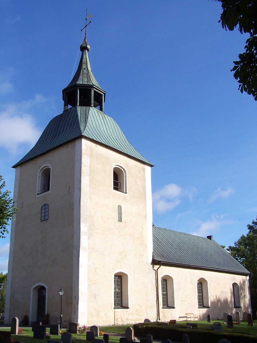 Trosa landsförsamlings church, Sweden